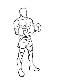 an exercise of biceps